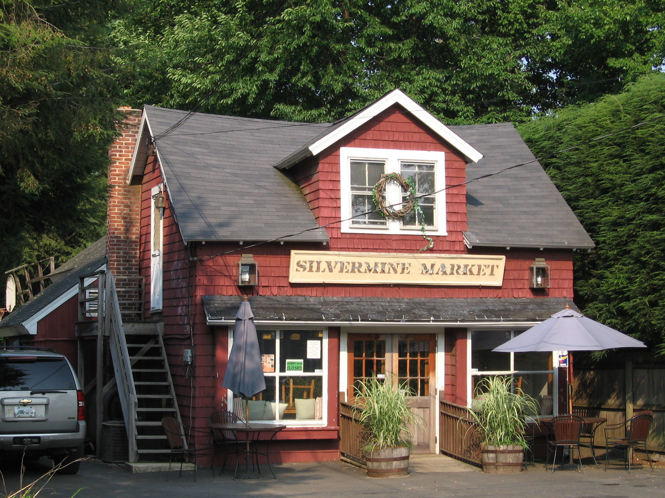 Silvermine Market, almost the only retail establishment in Silvermine, Connecticut, a hamlet in parts of Norwalk, New Canaan and Wilton, Connecticut.